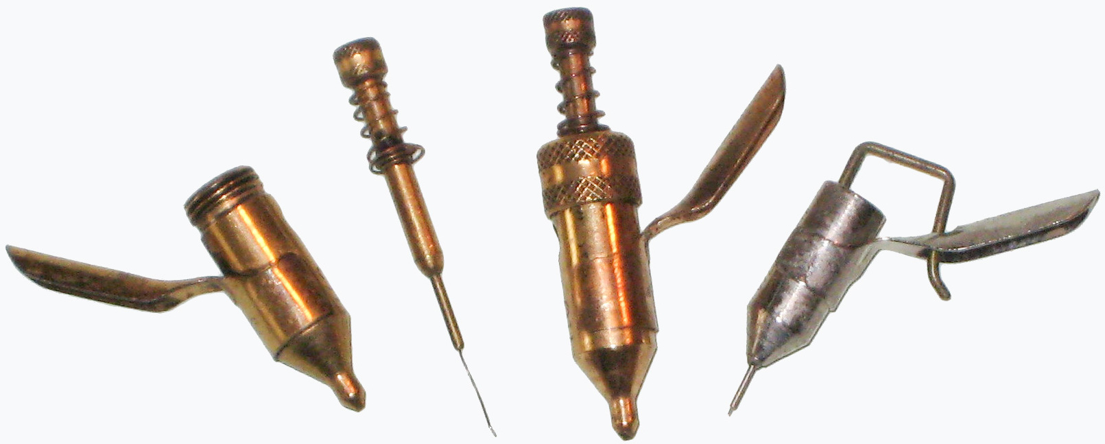 nib for Stencil